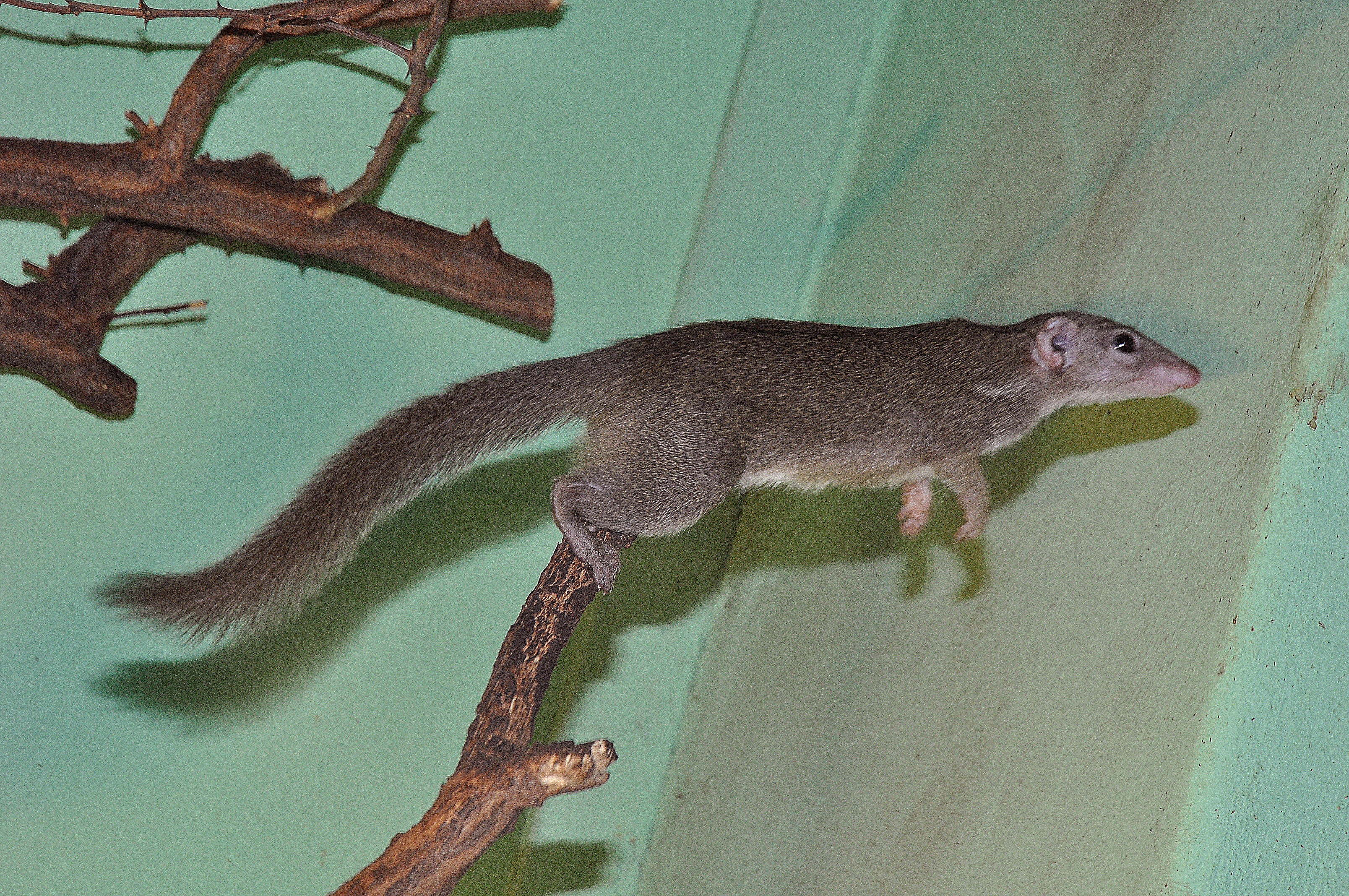 Jumping Tupaia belangeri.